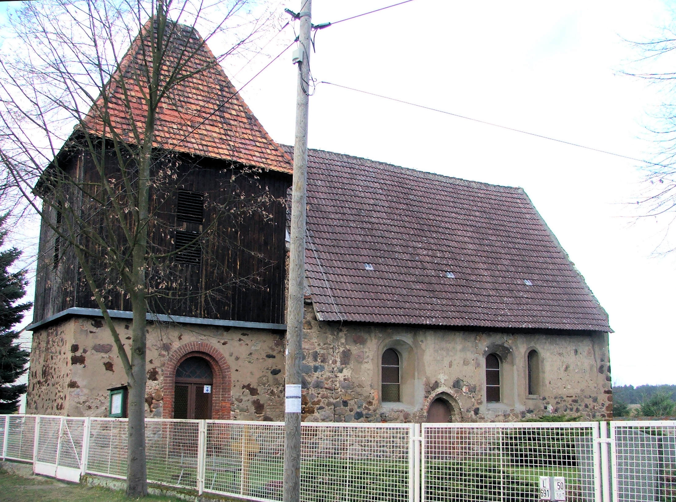 church in krassig